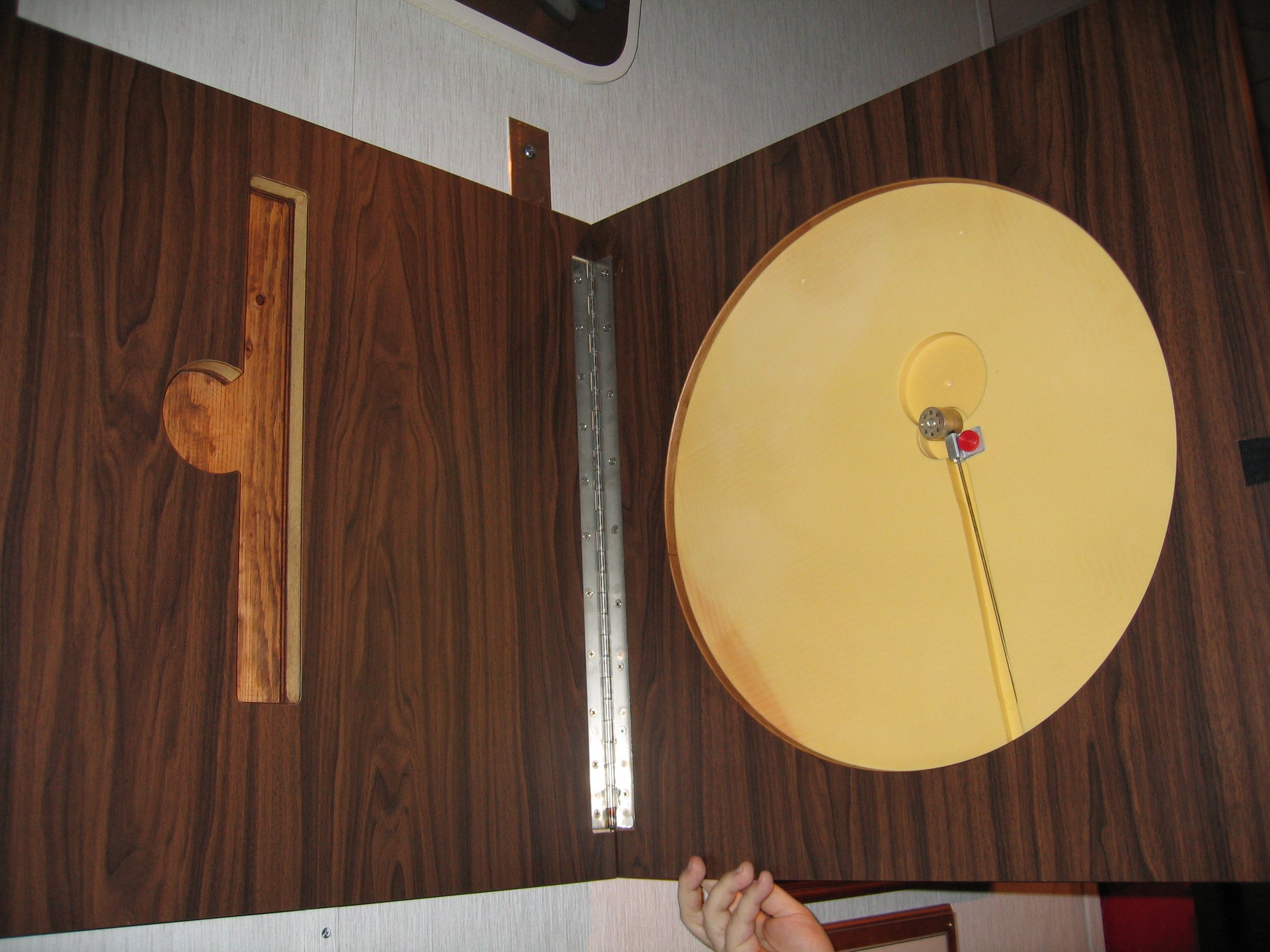 Open view of a replica of a bugged US great seal on display at the National Cryptologic Museum in 2005.